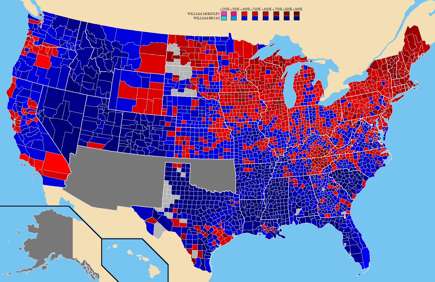 Map showing the results by county of the 1896 United States presidential election specifically identifying the percentage received by the winning candidate in each county. Counties with no information or results are in grey.